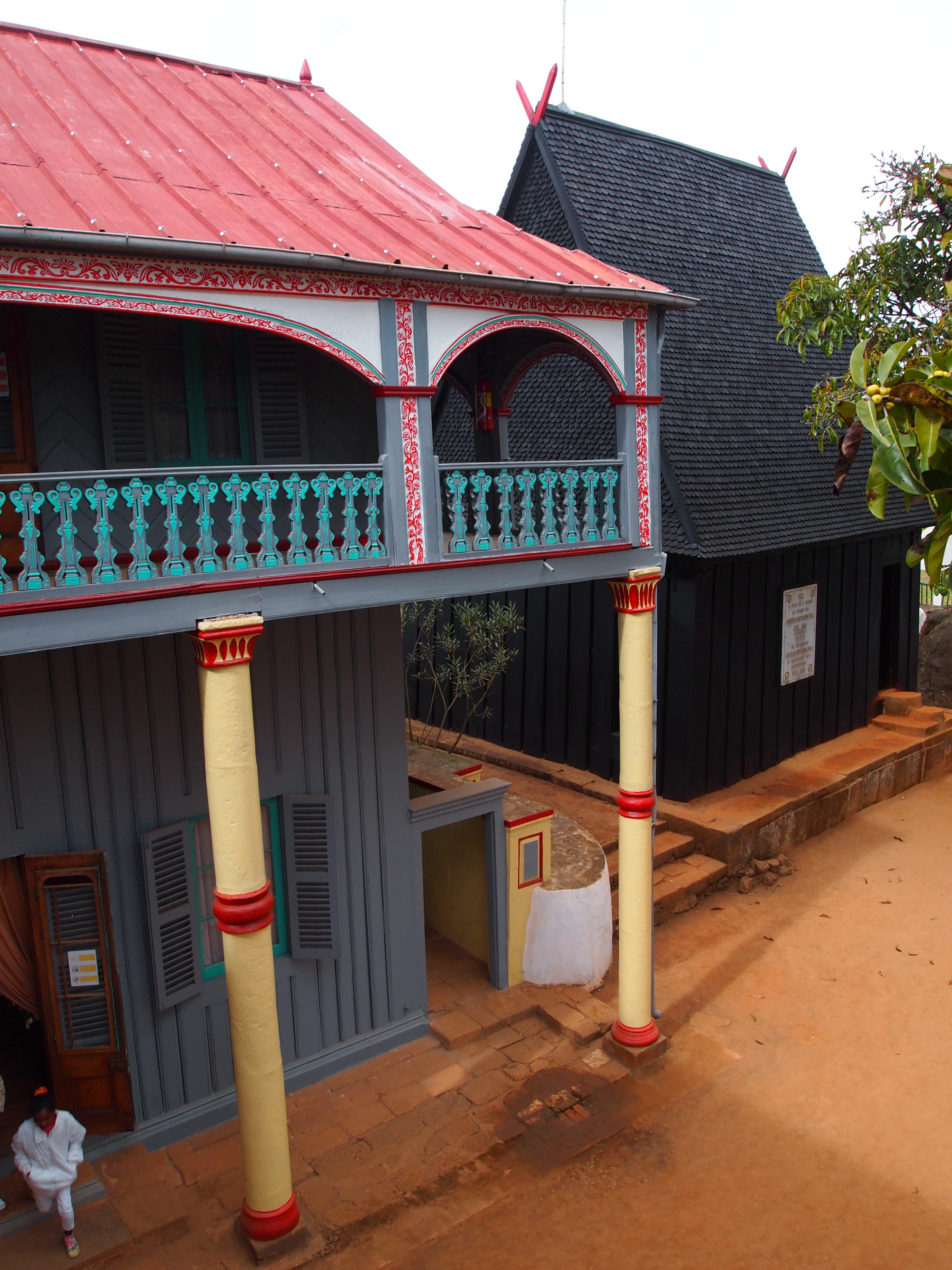 Madagascar Rova ambohimanga queen summer palace and Andrianampoinimerina house